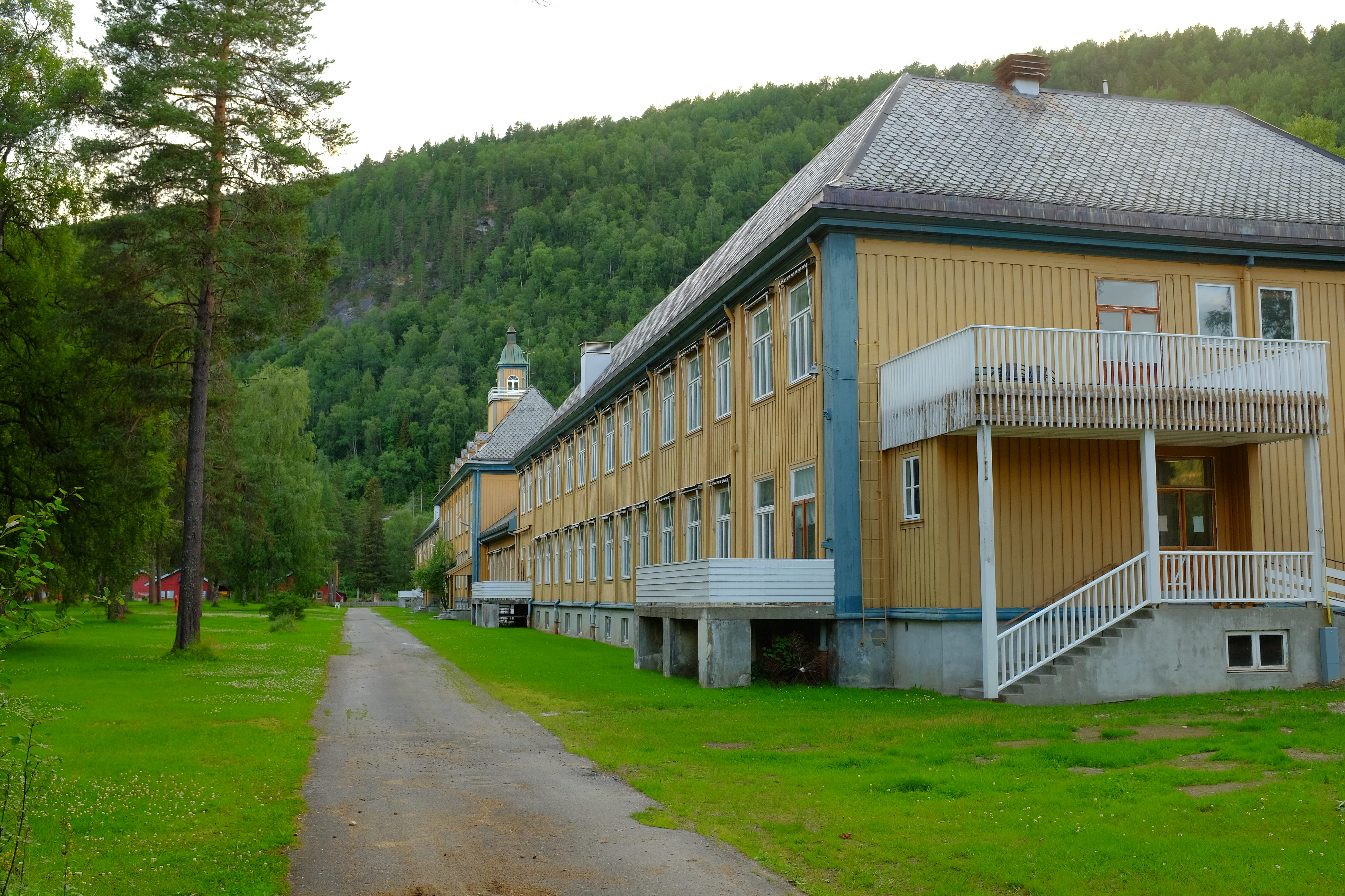 Vensmoen Sanatorium was originaly a central institution for the Northern Norway for treatment of tuberculosis.